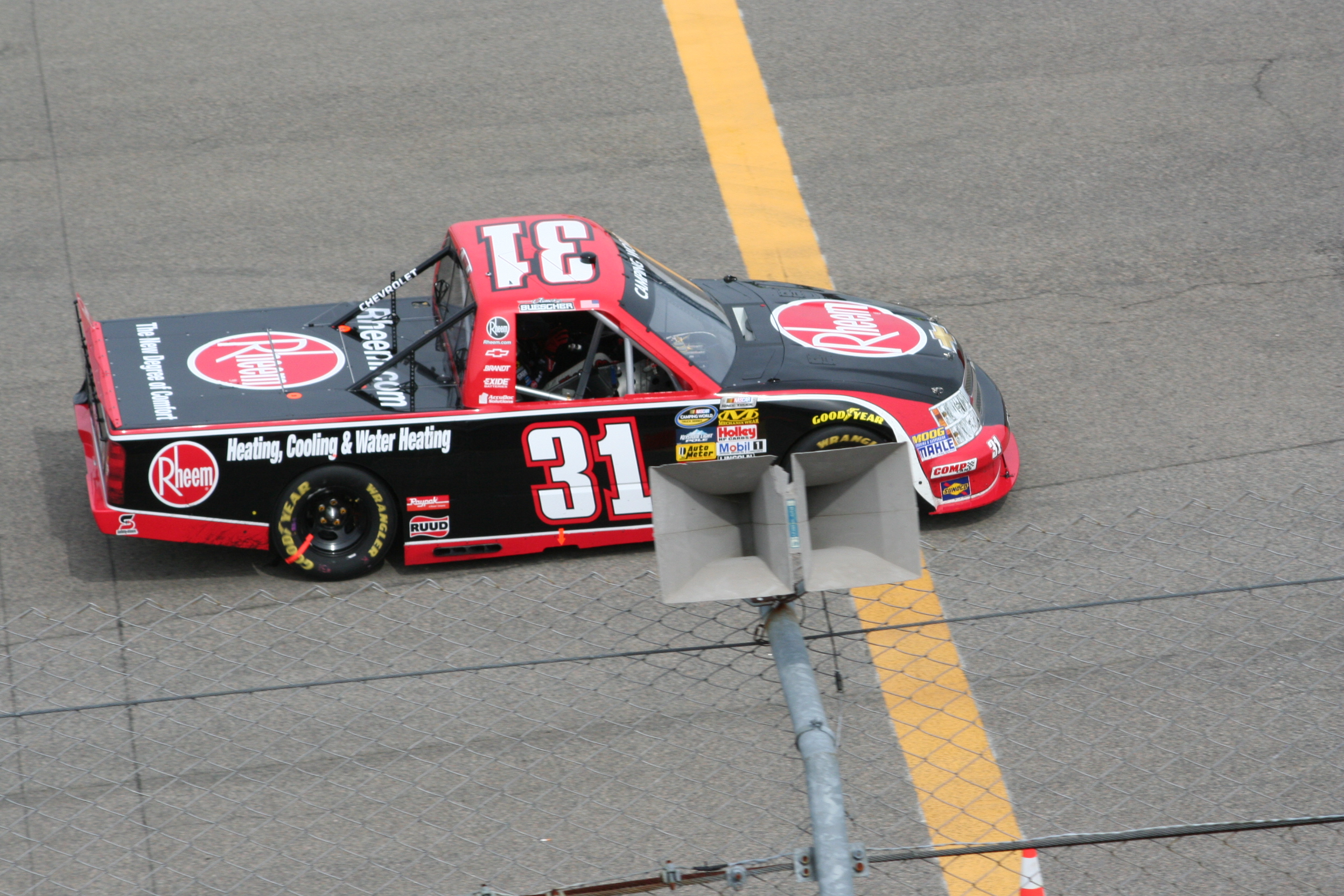 James Buescher drives the No. 31 Rheem Chevrolet during the North Carolina Education Lottery 200 at Rockingham Speedway, Rockingham, NC, April 14, 2013